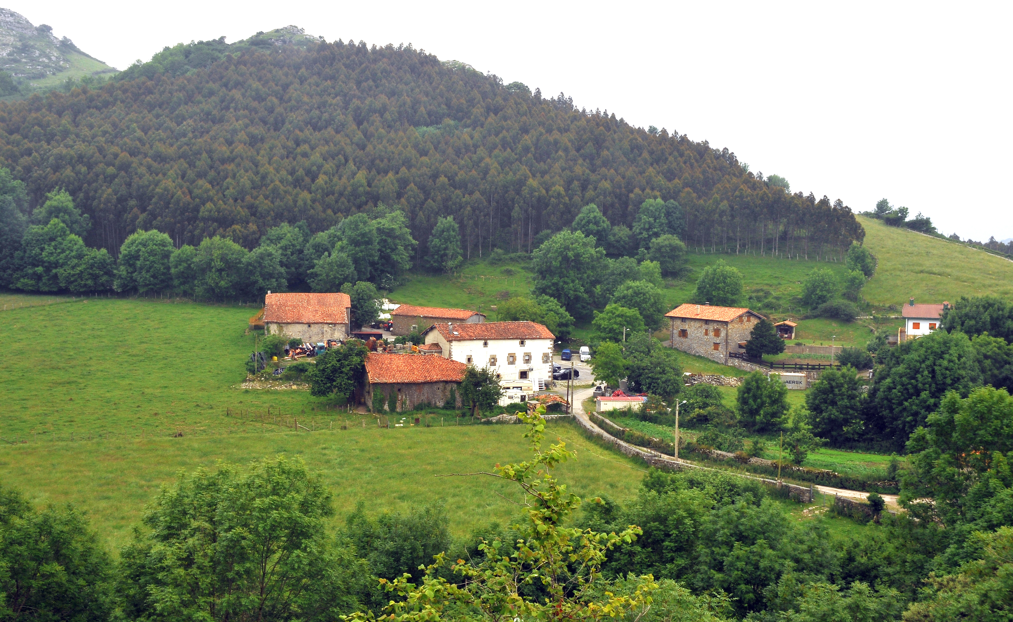 Gordón neighborhood. Trucíos/Turtzioz, Biscay, Basque Country, Spain